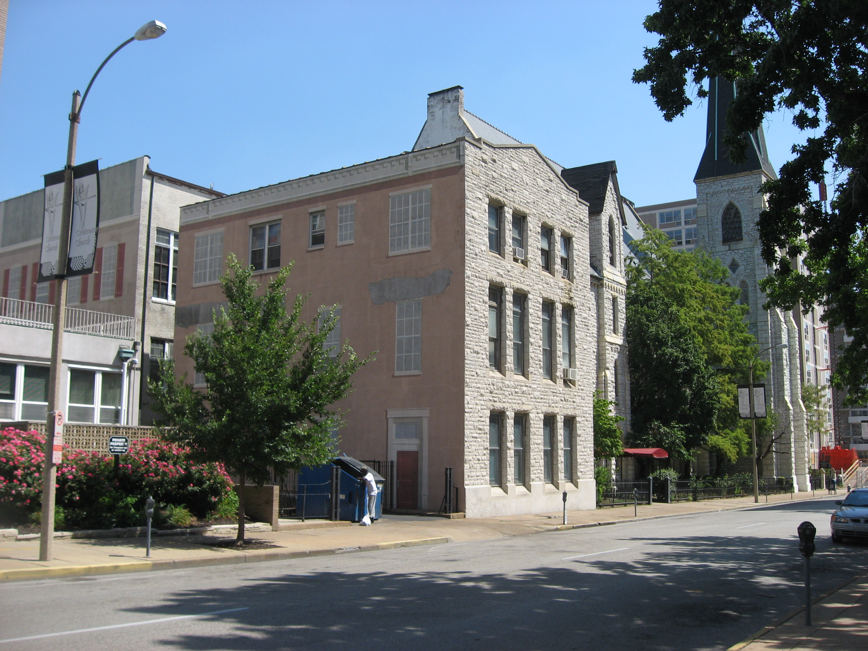 Buildings in the Centenary Methodist Church complex, located at 55 Plaza Square in St. Louis, Missouri, United States. Centered on the 1869-built church, the complex is part of the Plaza Square Apartments Historic District, a historic district that is listed on the National Register of Historic Places.